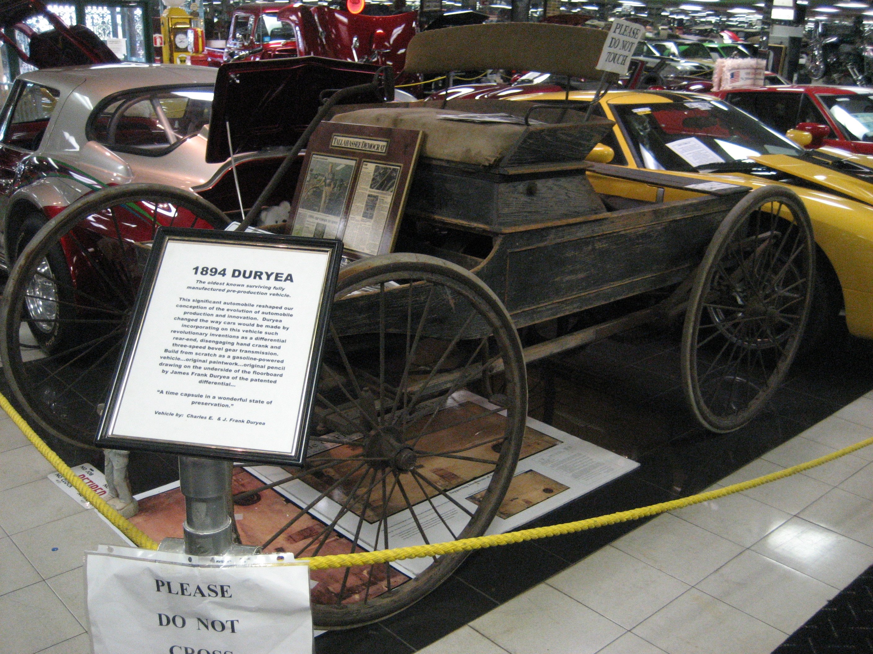 1894 Duryea horseless carriage, on display at Tallahassee Automobile Museum. Front left side view.